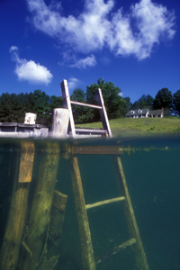 Vermont Farm Pond, Andrew Dawson Wildlife Photography